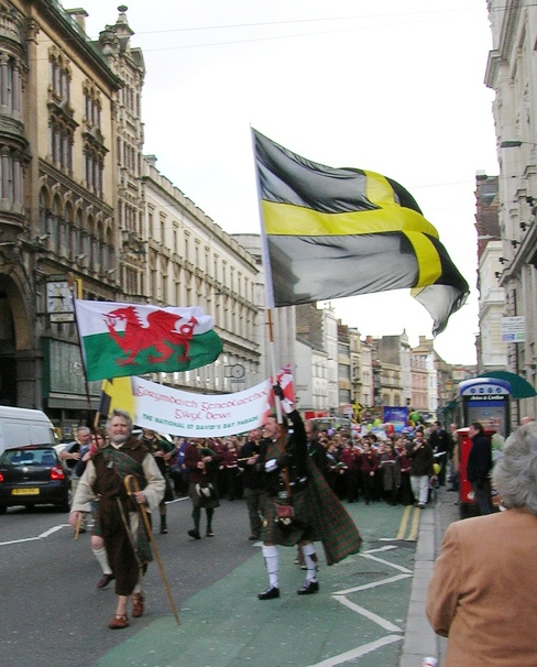 St Davids Day celebrations 2007, St Mary Street, Cardiff, Wales